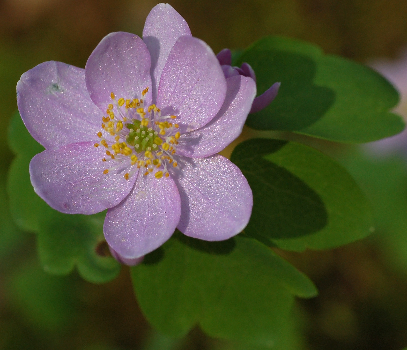 Photograph of a flower of the Rue-Anemoneen (Thalictrum thalictroides en Pink Form). Photo taken at the Mt. Cuba Center where it was identified.